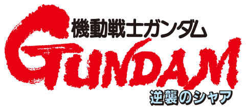 Logo of Mobile Suit Gundam: Char's Counterattack anime.